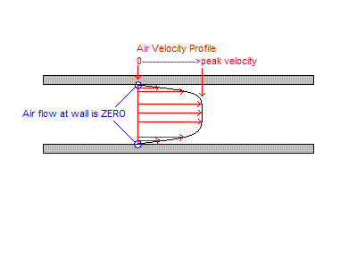 I created this for the cylinder head porting article.